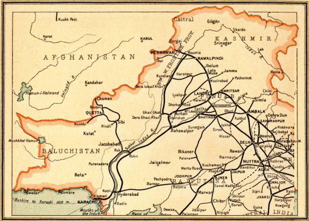 Northwestern Railway map scanned and cropped, from personal copy of the Imperial Gazetteer of India, Oxford University Press, 1908